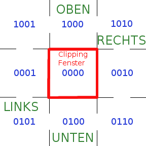 Illustration of Cohen-Sutherland Clipping Algorithmn